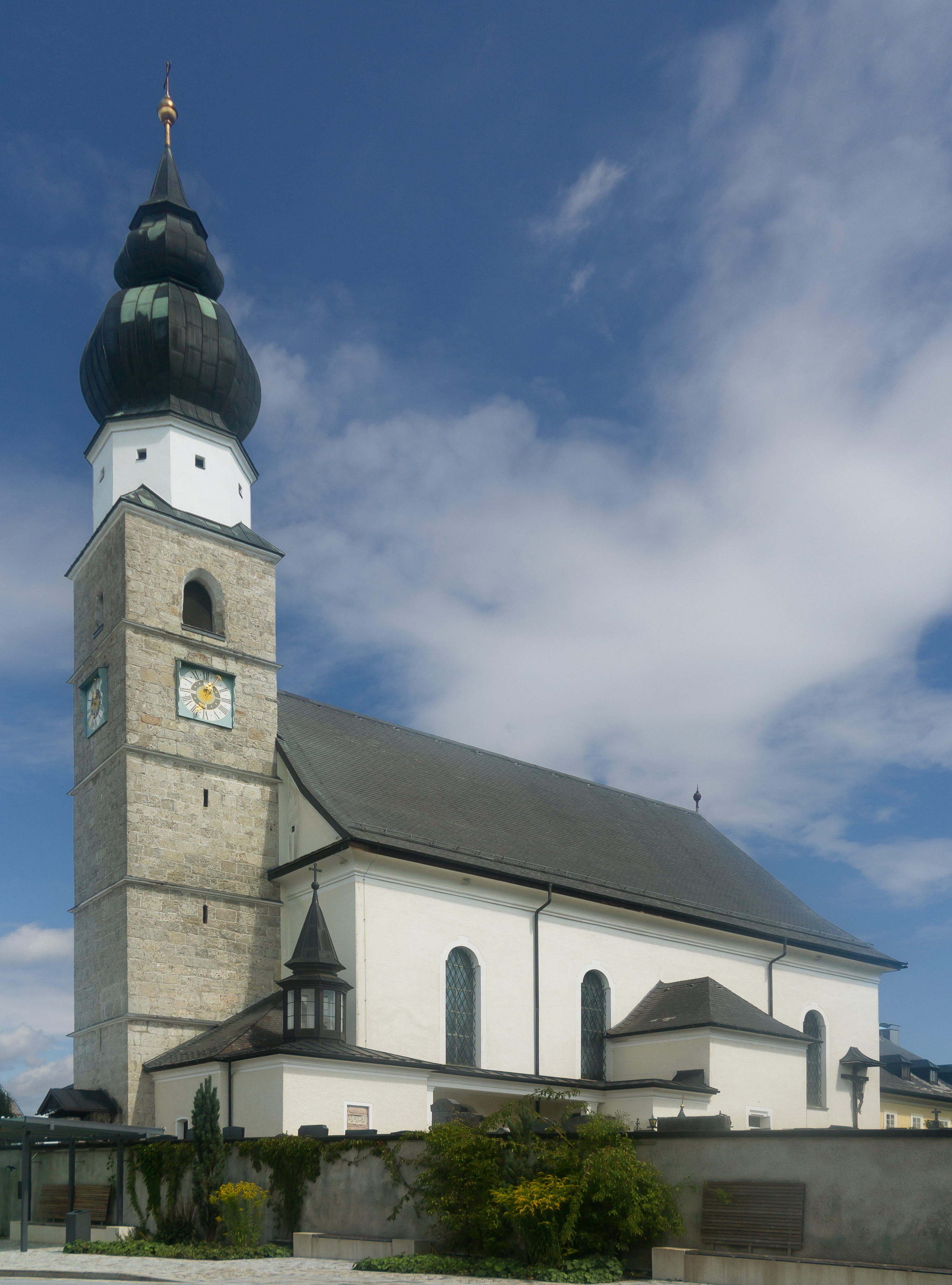 Eugendorf, church: die Katolische. Pfarrkirche Sankt Martin